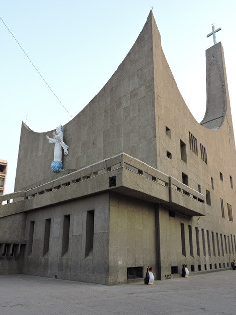 CathedralSchoolLucknow.jpgLucknow U.P. India